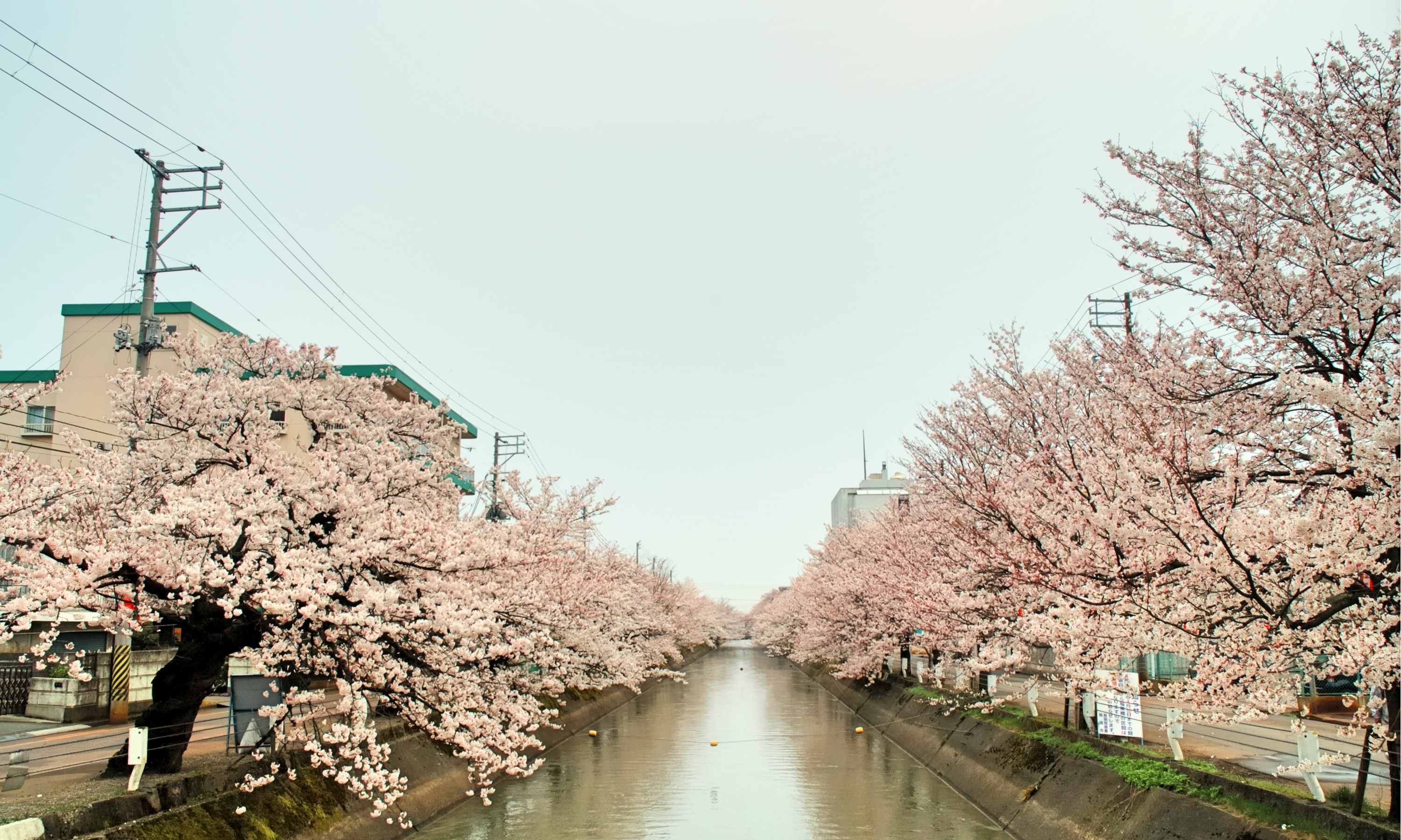 Sakura at Fukushima-e, Nagaoka, Niigata Prefecture, Japan brightness correction and cropped from File:2007 Sakura of Fukushima-e 004.jpg